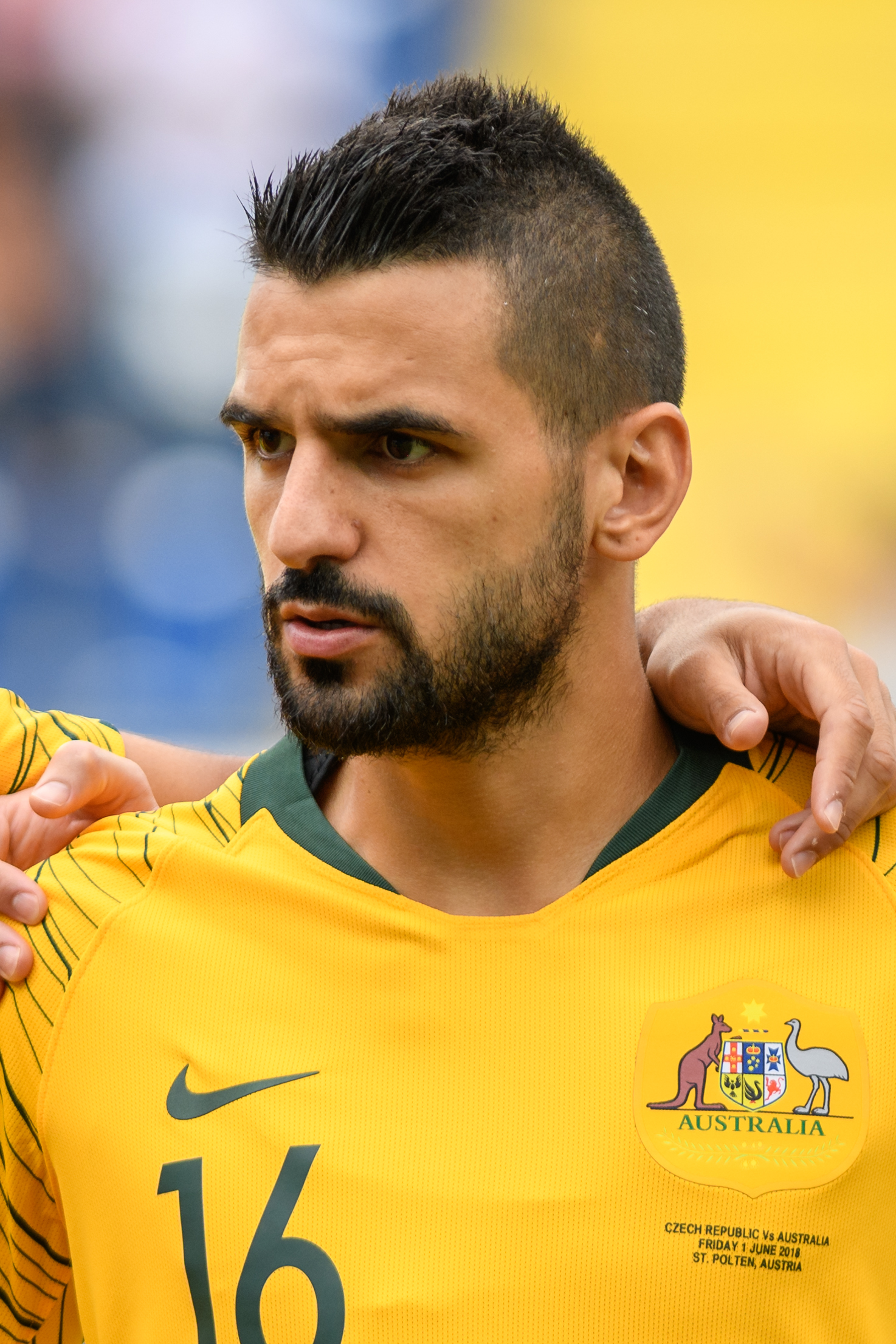 FIFA Friendly Match Czech Republic vs.Australia 2018/03/27. Picture shows Aziz Behich (AUS).